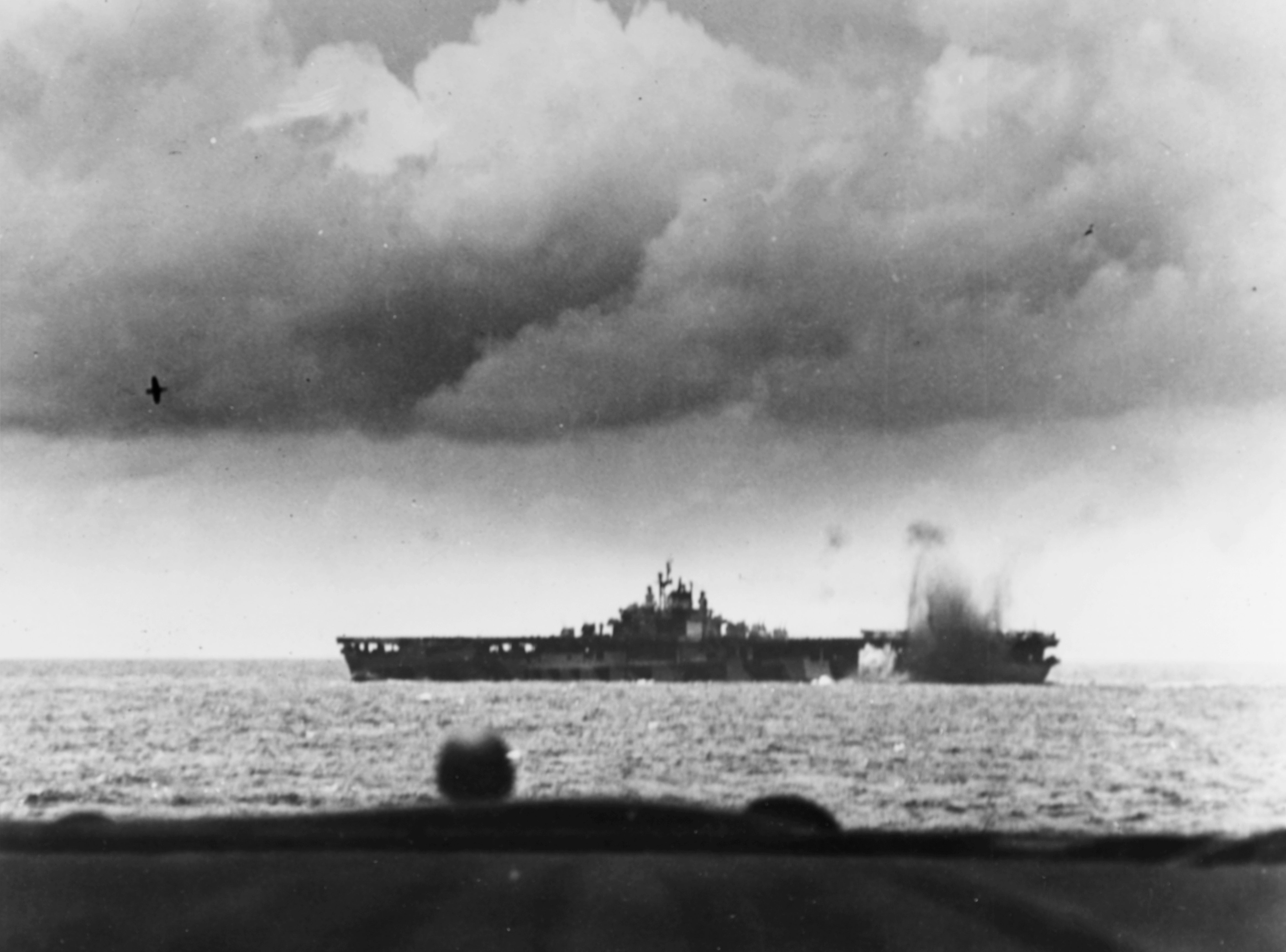 Battle of the Philippine Sea, June 1944: the U.S. Navy aircraft carrier USS Bunker Hill (CV-17) is near-missed by a Japanese bomb, during the air attacks of 19 June 1944. The Japanese plane, with its tail shot off, is about to crash, at left. Photographed from USS Monterey (CVL-26).